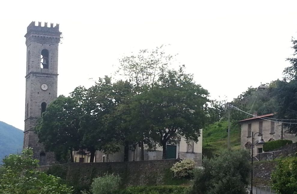 Pomezzana belltower